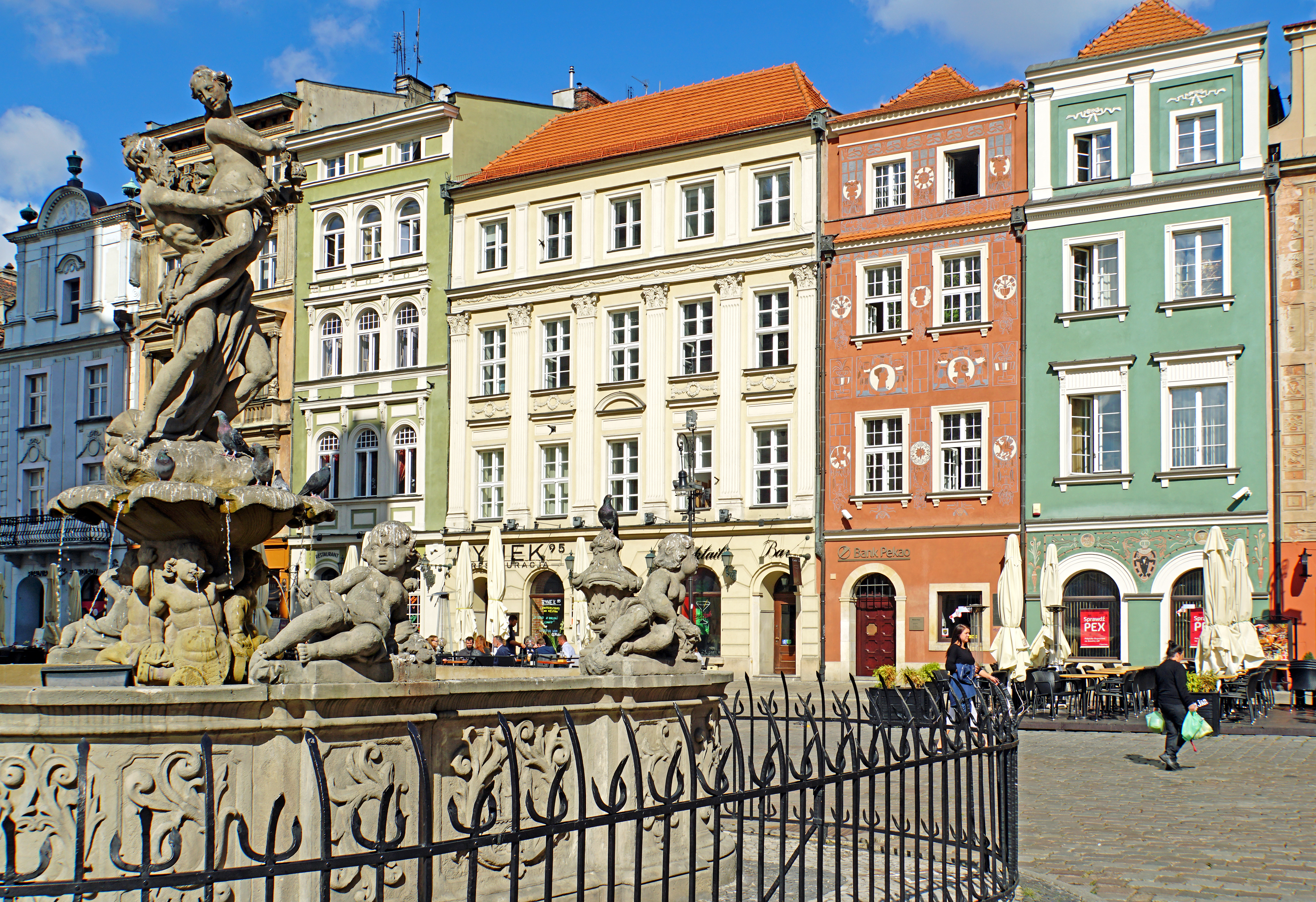 PLEASE, NO invitations or self promotions, THEY WILL BE DELETED. My photos are FREE to use, just give me credit and it would be nice if you let me know, thanks. Located in front of the Old Town hall, it replaced a well from the beginning of the 17th century, one of four such wells in the square. The modifications were made in the years 1758-66. This Baroque sculpture in sandstone, whose subject matter harks back to the Greek mythology (it depicts the abduction of Proserpine by the ruler of the underworld). The four reliefs on the sides of the cistern represent the elements: fire, wind, water and earth, and next to them is the city's coat of arms.